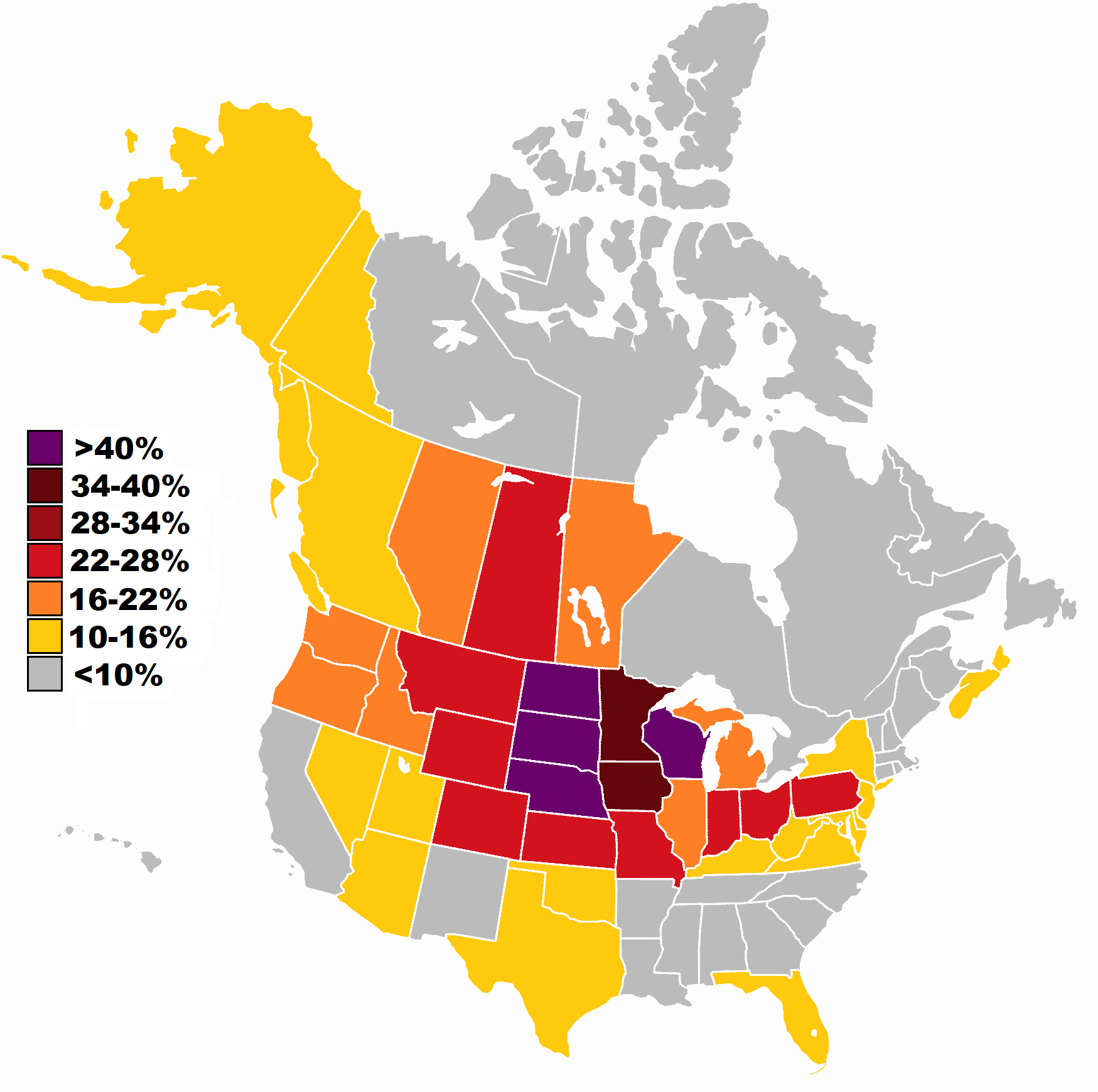 German ancestry in the USA (2000 census) and Canada (2016 census). I used blank map made by Lokal_Profil. Data for Canada: Data for the United States of America: Legend: Over 40% 34% - 40% 28% - 34% 22% - 28% 16% - 22% 10% - 16% below 10%